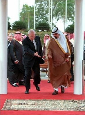 Vice President Dick Cheney and Crown Prince Abdullah of Saudi Arabia extend courtesies to each other as they enter the area where the two leaders will stand during an arrival ceremony in Jeddah, Saudi Arabia, March 16, 2002.